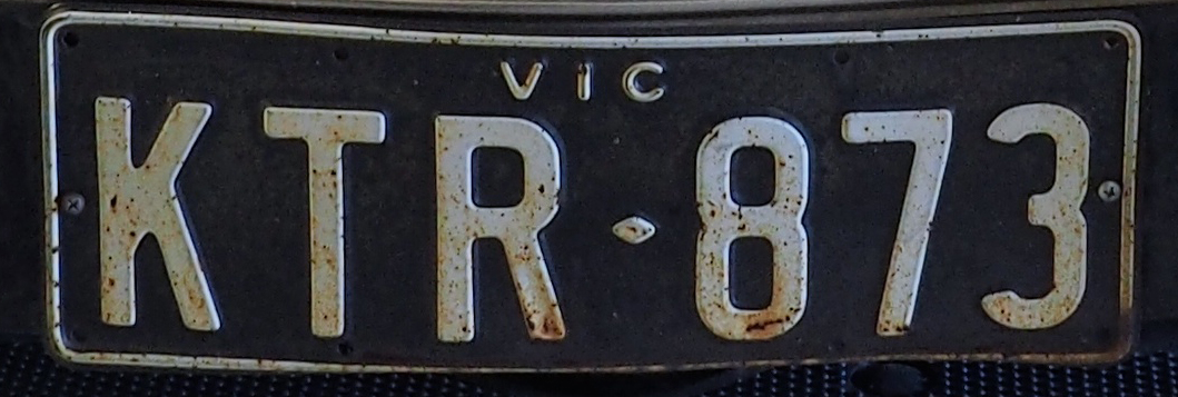 General issue vehicle registration plate of Victoria, standard size, KTR-783. This plate was released in 1953 and was used on vehicles until 1977 when they exhausted the series out.